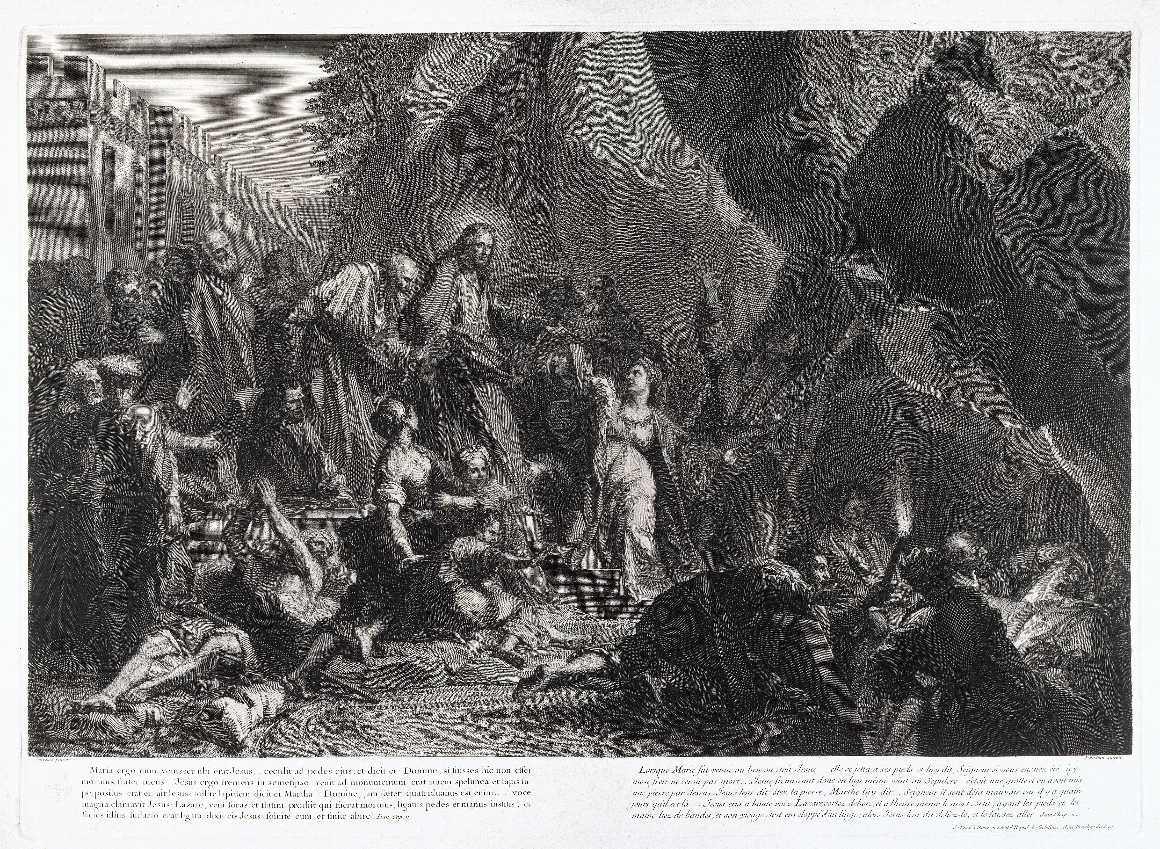 Christ raises Lazarus from his tomb. Engraving by J. Audran after J. Jouvenet. Iconographic Collections Keywords: Jean Baptiste Jouvenet; Jean Audran